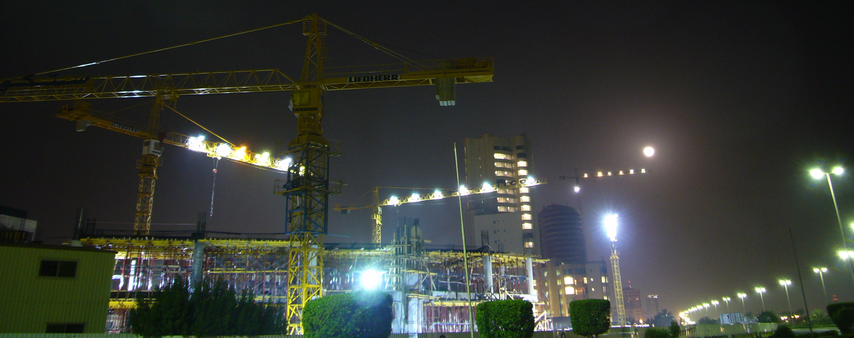 Under construction H.Q. building for "Olympic Council Of Asia". The project includes an Olympic Academy, Olympic Museum and a 5 stars Hotel Owner : Olympic Council Of Asia Location : Arabian/Persian Gulf Street (Waterfront), Salmiya. Construction Start : 2005 Construction End : 2007